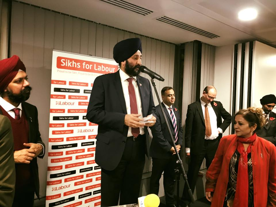 Gurinder Josan at a Sikhs for Labour Event